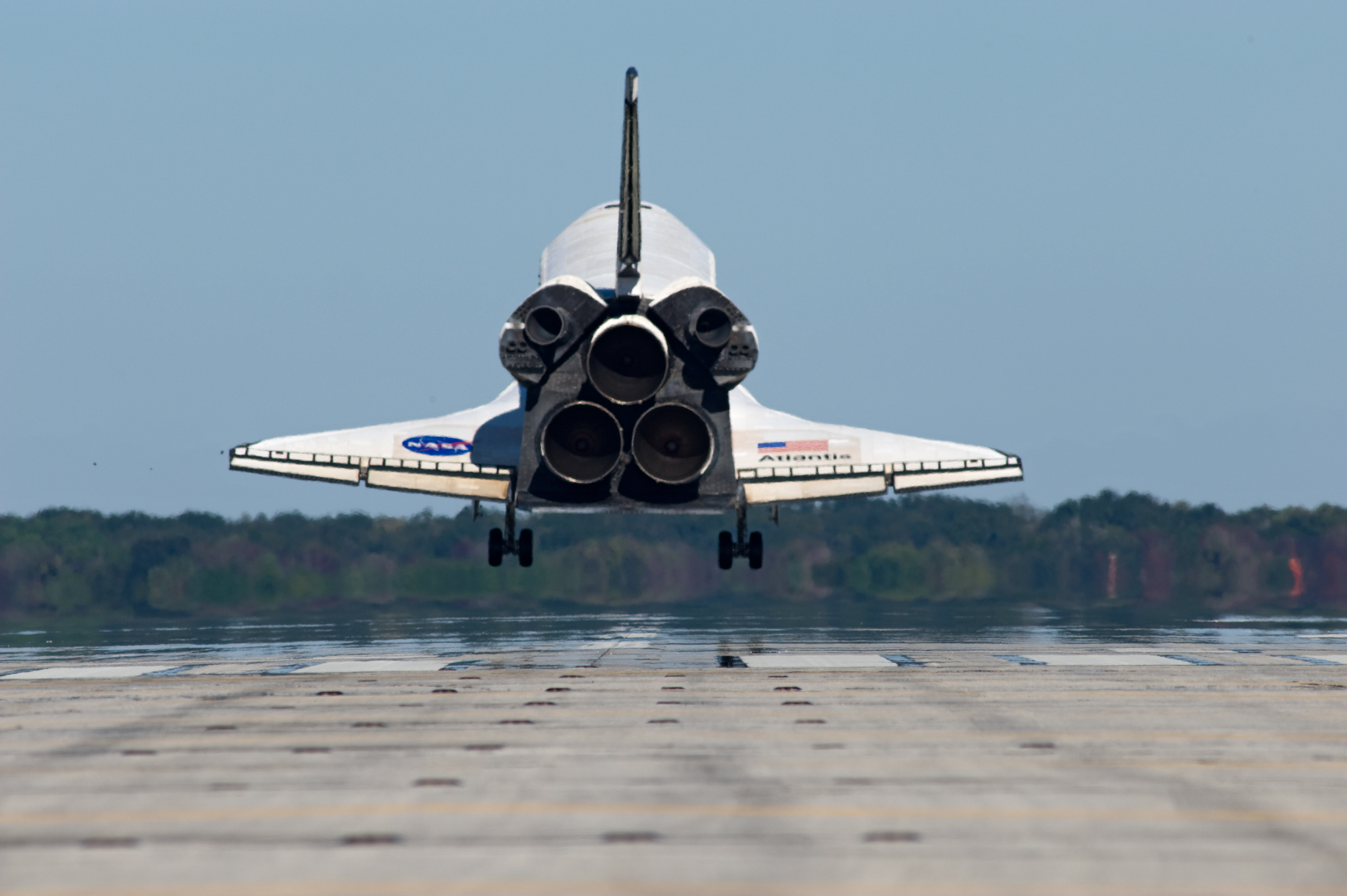 CAPE CANAVERAL, Fla. - With landing gear down, space shuttle Atlantis nears touch down on Runway 33 at the Shuttle Landing Facility at NASA's Kennedy Space Center in Florida after 11 days in space, completing the 4.5-million mile STS-129 mission on orbit 171. Main gear touchdown was at 9:44:23 a.m. EDT. Nose gear touchdown was at 9:44:36 a.m., and wheels stop was at 9:45:05 a.m. Aboard Atlantis are Commander Charles O. Hobaugh; Pilot Barry E. Wilmore; Mission Specialists Leland Melvin, Randy Bresnik, Mike Foreman and Robert L. Satcher Jr.; and Expedition 20 and 21 Flight Engineer Nicole Stott who spent 87 days aboard the International Space Station. STS-129 is the final space shuttle Expedition crew rotation flight on the manifest. On STS-129, the crew delivered 14 tons of cargo to the orbiting laboratory, including two ExPRESS Logistics Carriers containing spare parts to sustain station operations after the shuttles are retired next year. For information on the STS-129 mission and crew, visit